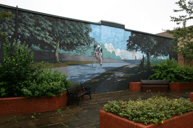 The Beryl Burton Memorial Garden.. Beryl Burton is one of the UK's greatest ever sports persons. She was born on May 12, 1937 and died as she had lived, on her bike, suffering from heart failure whilst out training on 8 May 1996. Despite the author being quite bitter, this article provides good information about her........ [1]